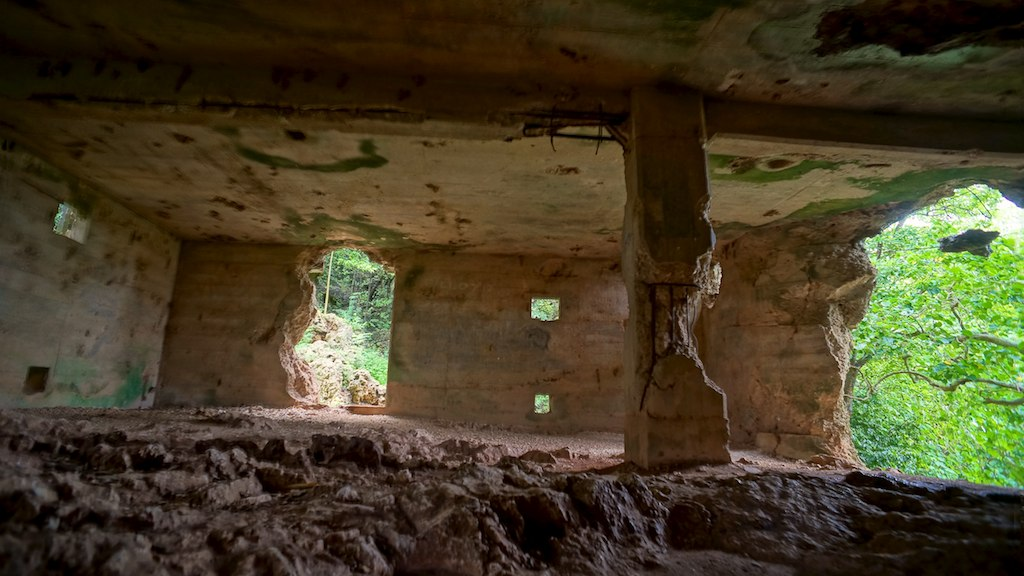 Inside the last Japanese Headquarters in northern Saipan. I can't imagine what it would have been like here durring the last days of the American invasion.